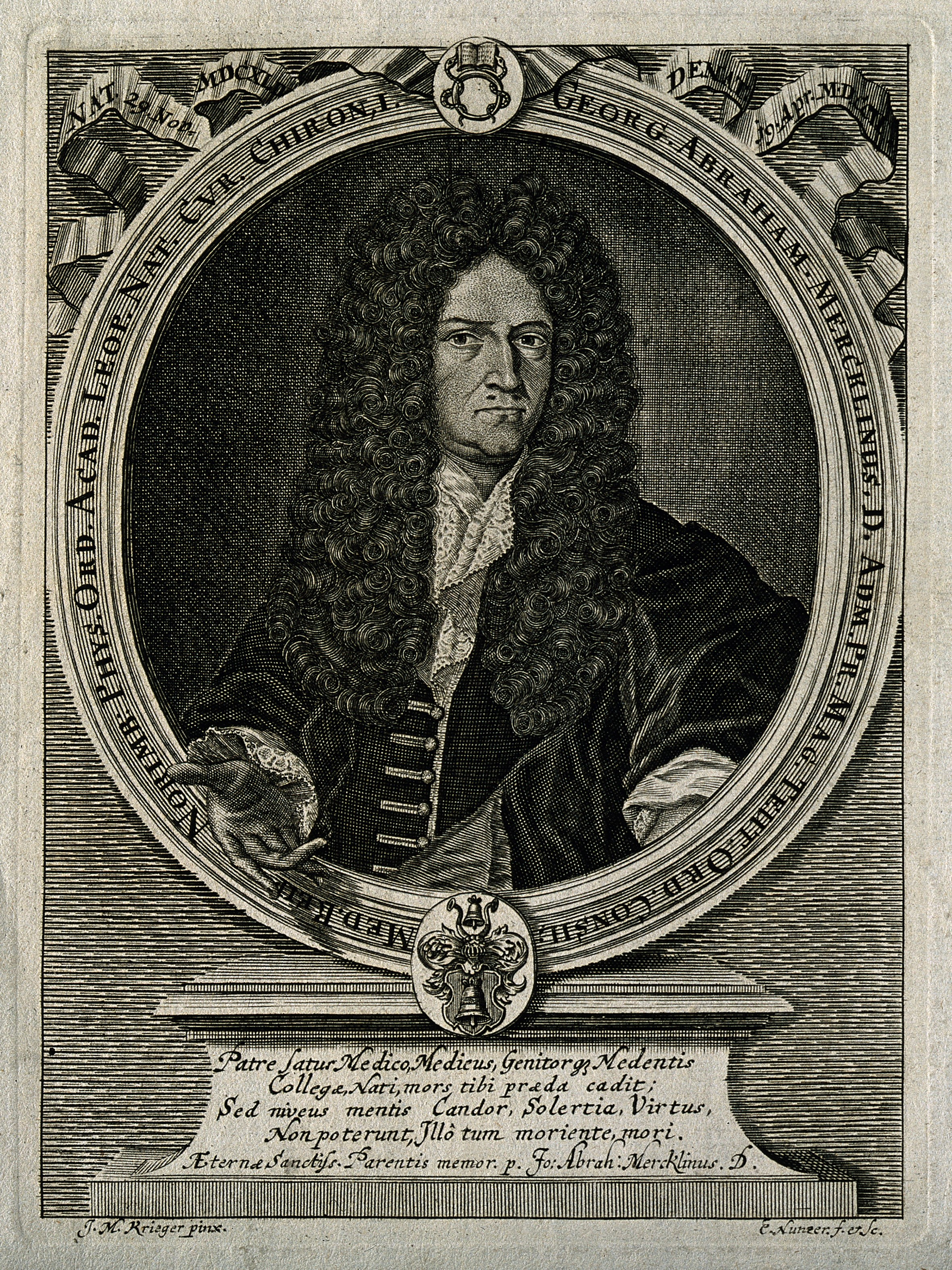 Georg Abraham Mercklin. Line engraving by E. Nunzer after J. M. Krieger. Iconographic Collections Keywords: portrait prints; engravings; Georg Abraham Mercklin